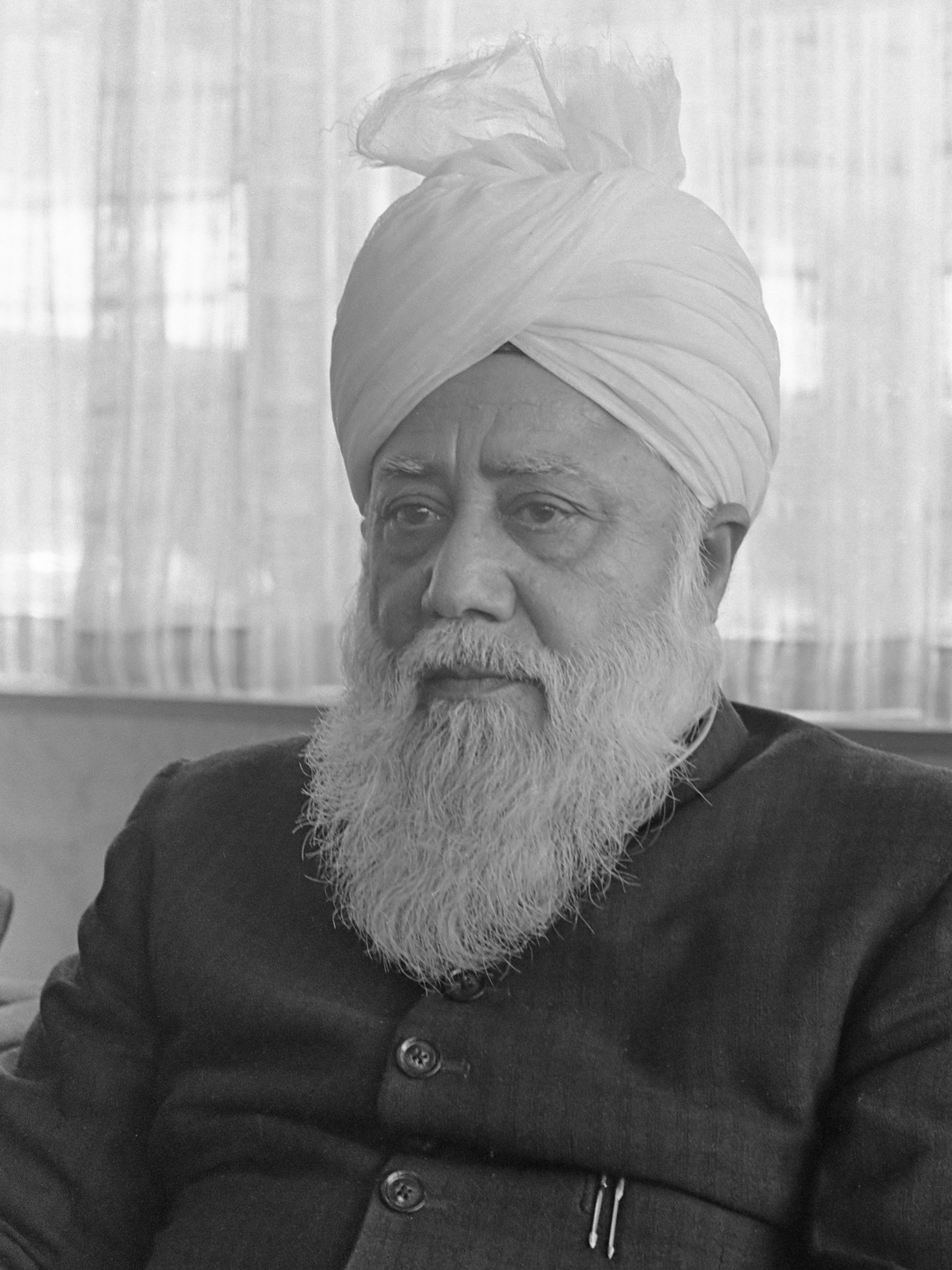 Aankomst Islamleider Hazrat Mirza Nasir Ahmad Mash III Schiphol 15 juli 1967